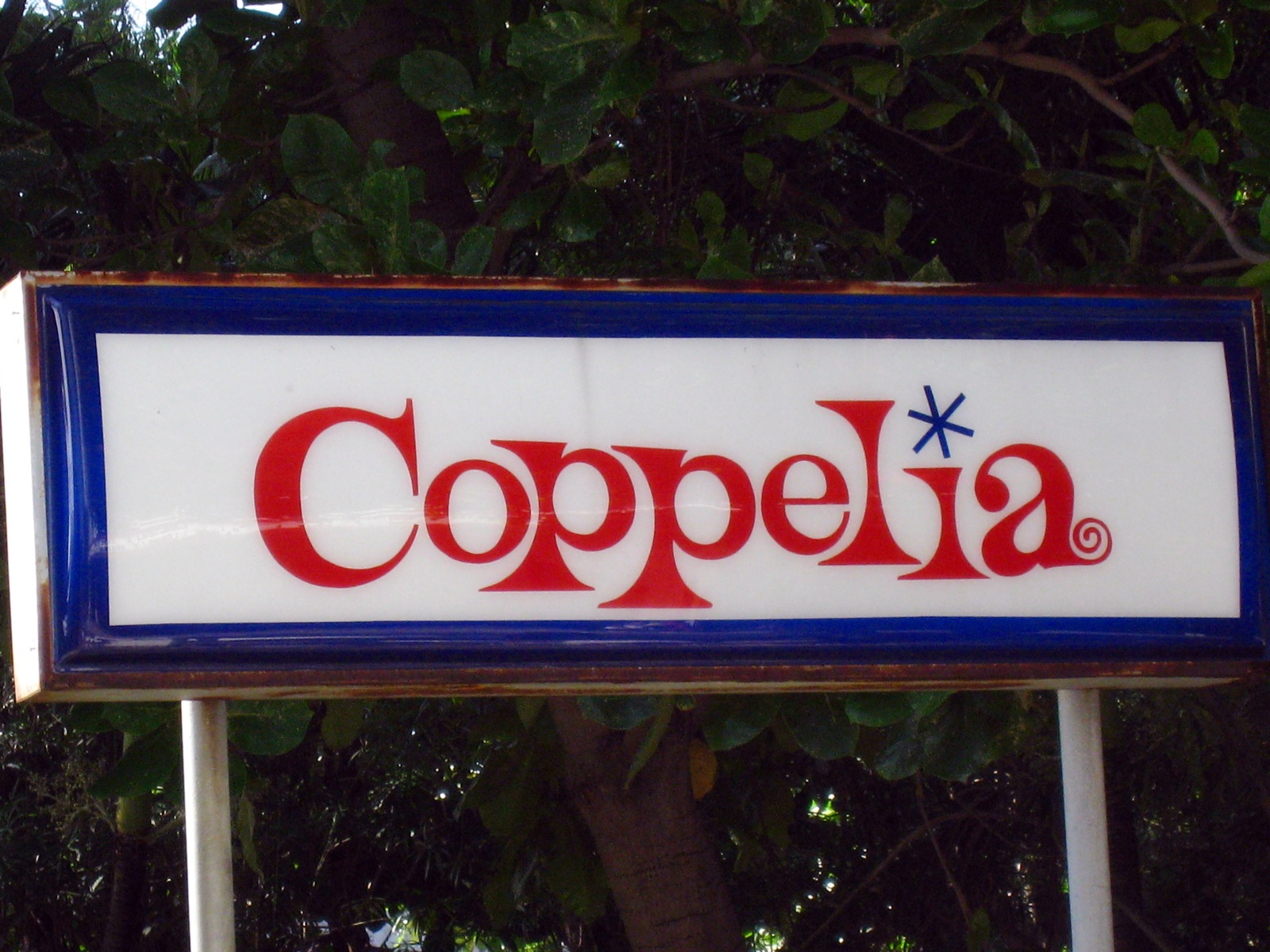 Coppelia ice cream parlor, Havana, Cuba